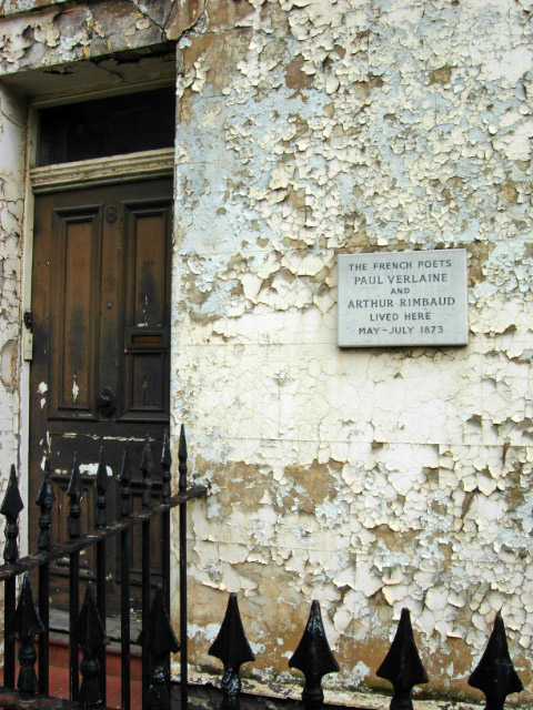 8 Royal College Street, Camden Town This dilapidated building was home, briefly, to two French poets: Paul Verlaine and Arthur Rimbaud, in 1873. Verlaine and Rimbaud had fled Paris after Verlaine became involved with a group of unsuccessful revolutionaries. They led a bohemian lifestyle in London, which ended with Verlaine shooting and lightly wounding Rimbaud. Verlaine went on to become a respected teacher in Bournemouth and is credited with laying the foundations for French free verse and other experimental poetic techniques.